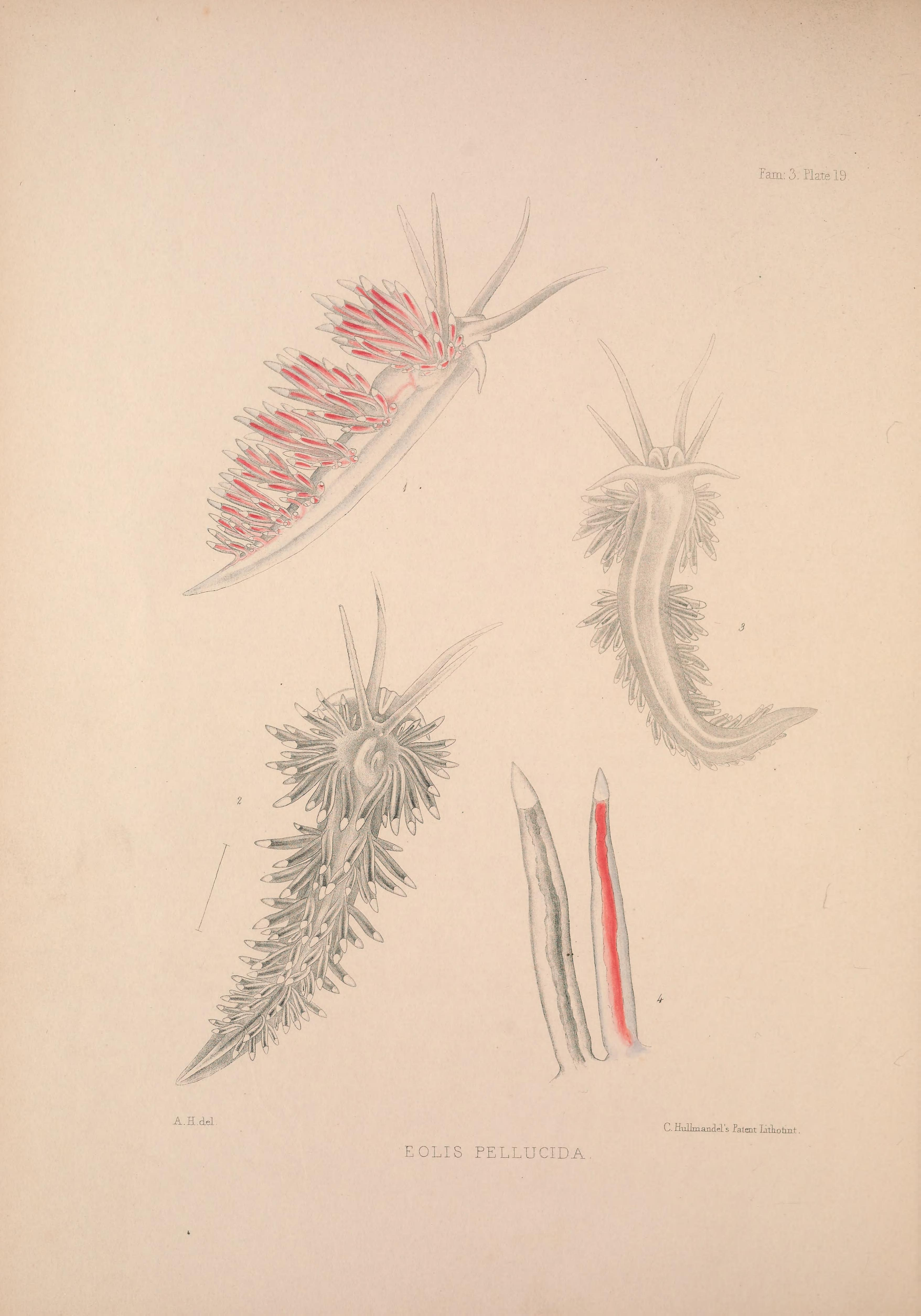 Alder J. & Hancock A. (1845-1855). A monograph of the British nudibranchiate Mollusca: with figures of all the species. The Ray Society, London. Published in 8 parts:Part3 Fam.3 Plate 19 [1847]. Eolis pellucida Alder & Hancock, 1843 synonym Flabellina pellucida (Alder & Hancock, 1843) accepted name